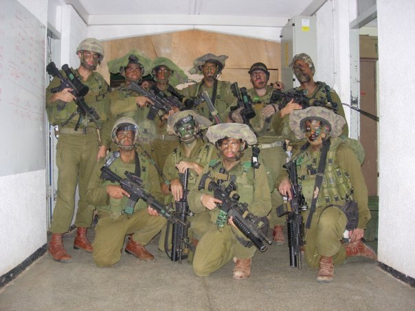 preparing for night raid, "Netzah Yehuda" recon company